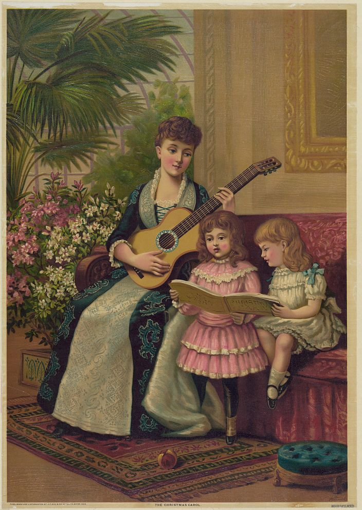 A mother plays the guitar while her two daughters sing a carol.